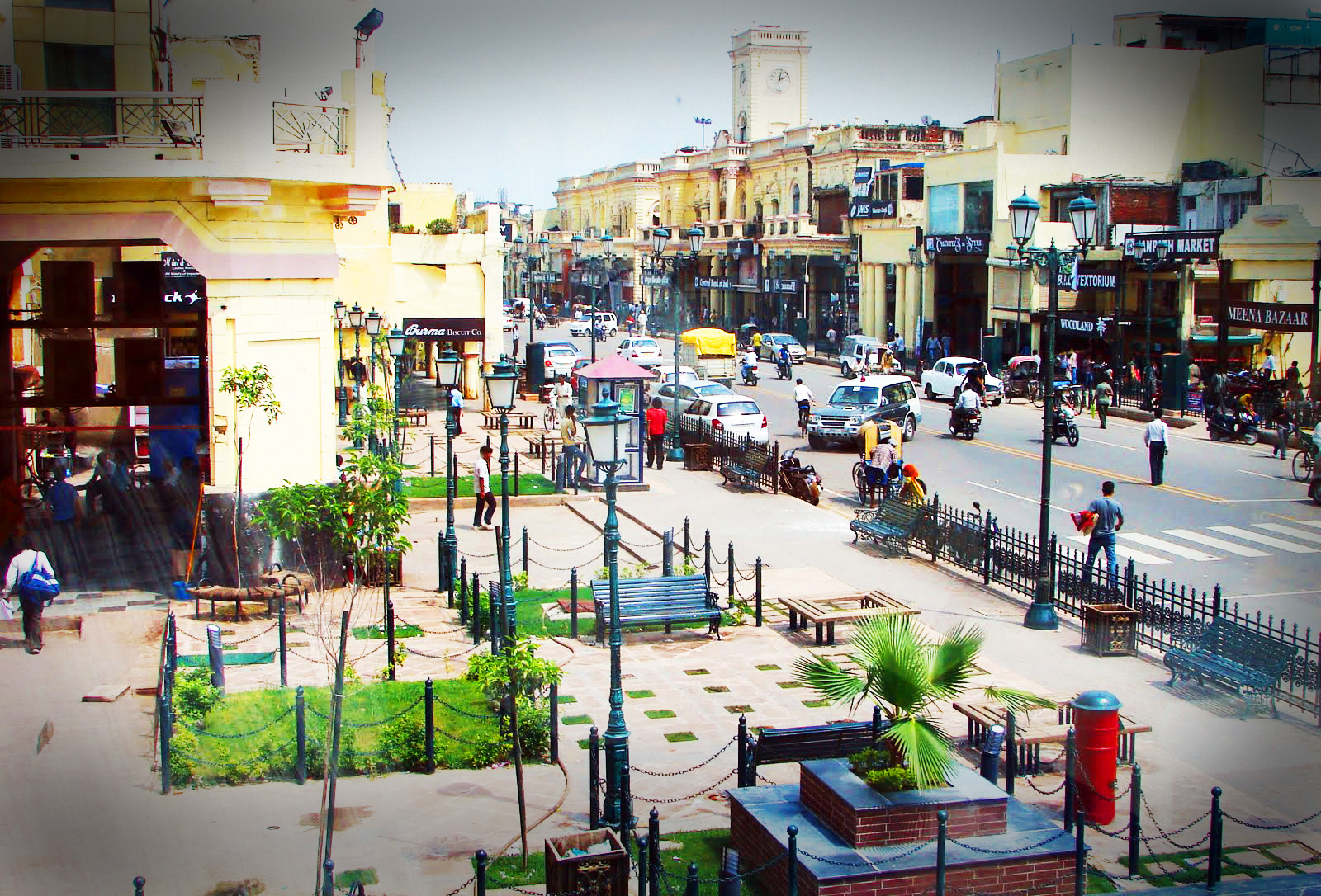 Hazratganj market, one of the most upmarket and beautiful markets of the city